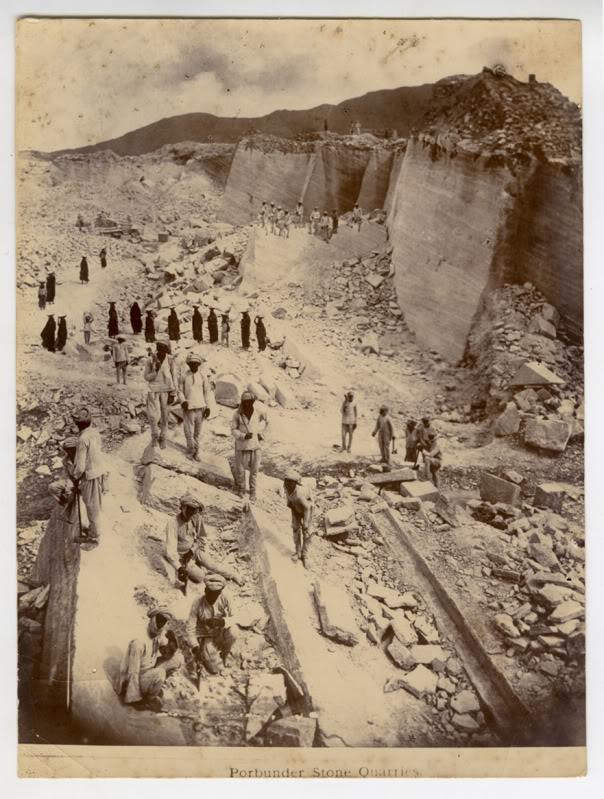 "Porbunder Stone Quarries," c.1890* Source: ebay, Sept. 2013